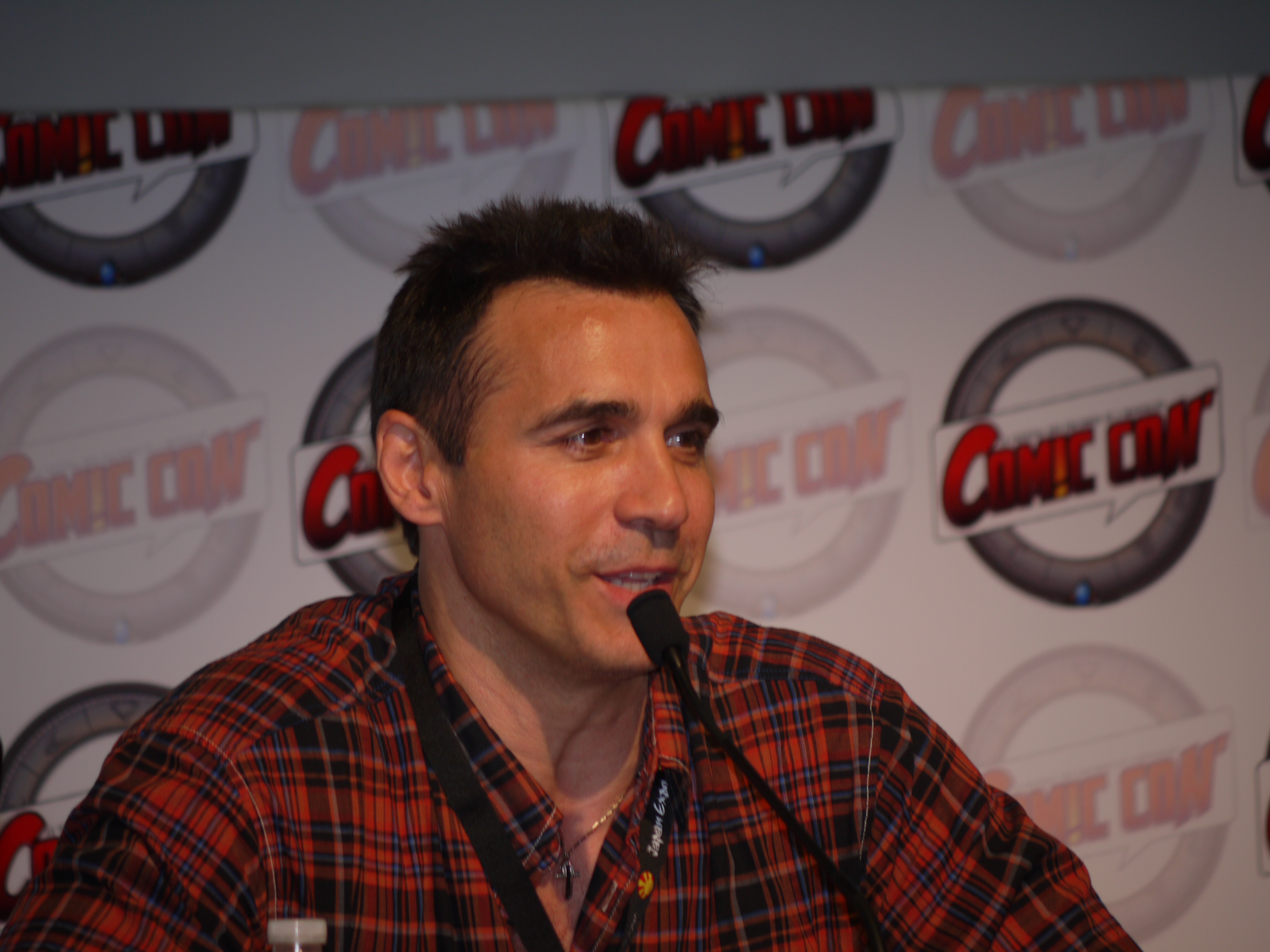 Japan Expo Festival, 11th impact